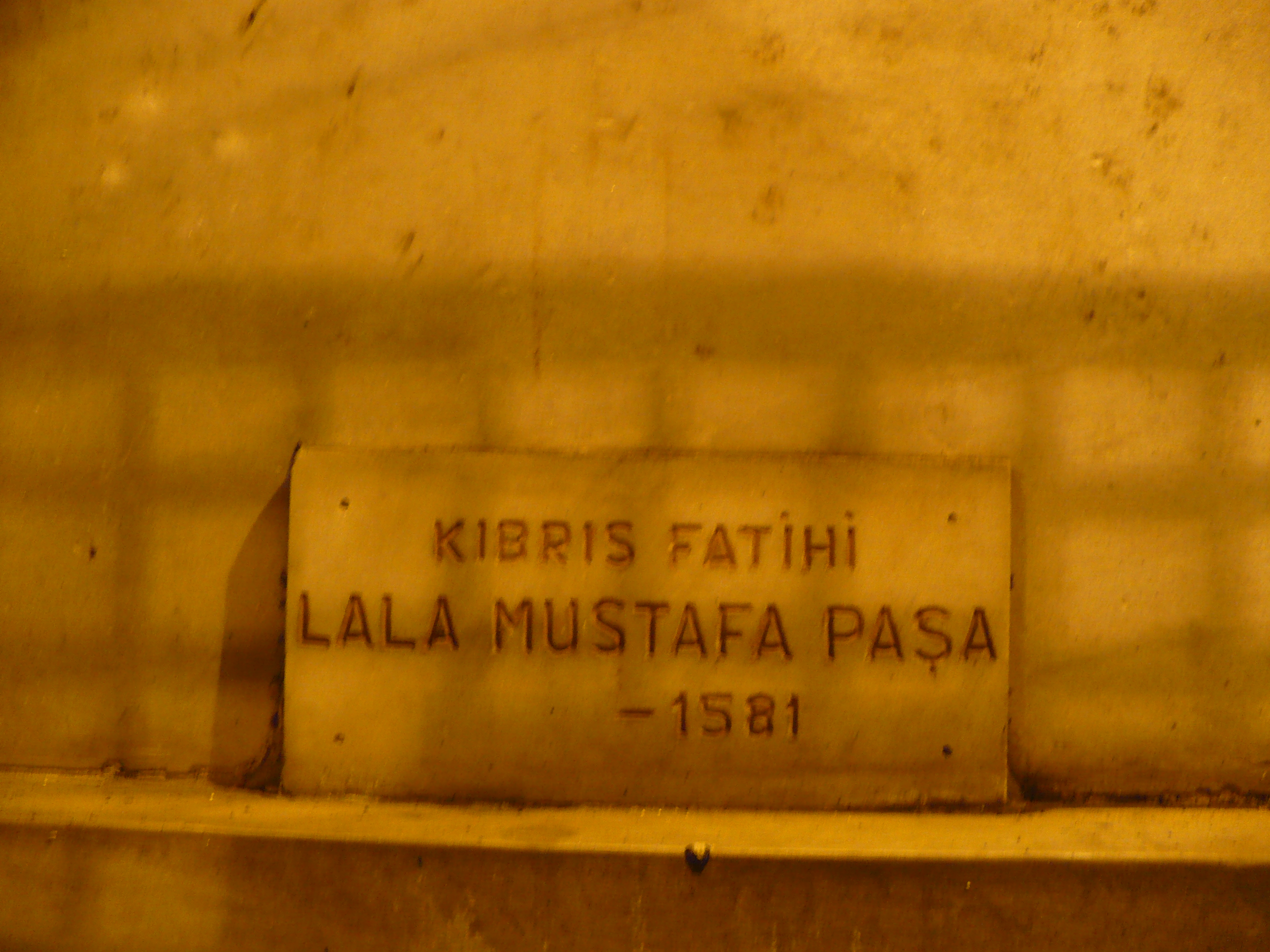 Lala Mustapha Pasha's Grave (death 1581) Istanbul/Turkey